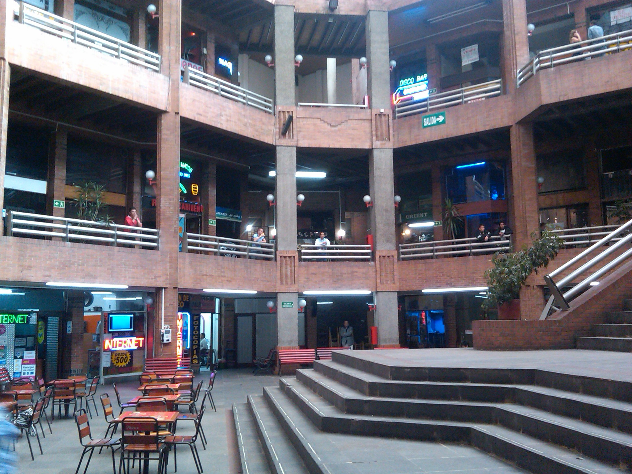 Interior of the Terraza Pasteur shopping center